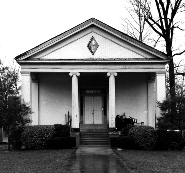 Phi Gamma Hall is a Greek Revival structure constructed in 1851 to house the Phi Gamma Literary Society at Emory College. Today it is the oldest structure on the Oxford campus of Emory College. This photo is a file photo of the Phi Gamma as one of the 23 contributing structures to the Oxford Historic District from the National Register of Historic Places. Object location33° 37′ 32″ N, 83° 52′ 13″ W